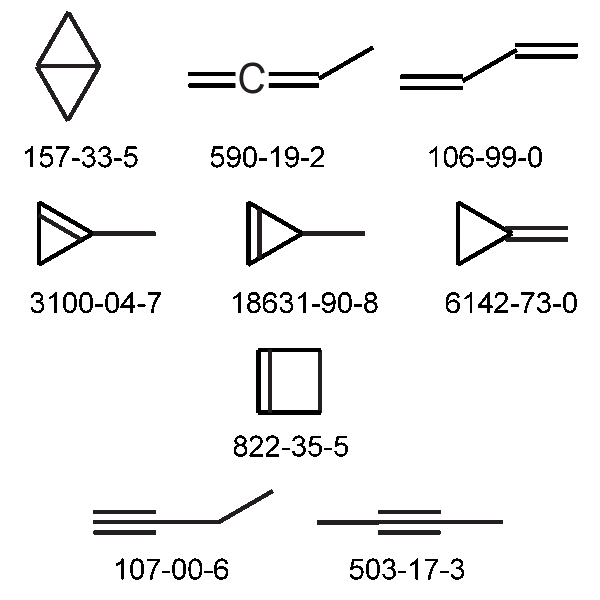 C4H6 isomers